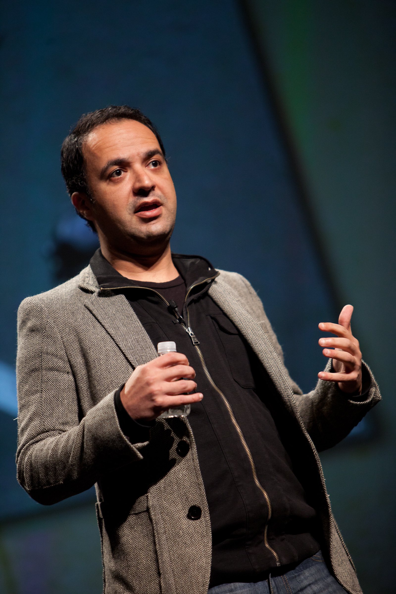 Kambiz Hosseini and Saman Arbabi share details of their program Parazit, a satire of Iranian politics that they distribute through unofficial channels photo by Kris Krüg for PopTech